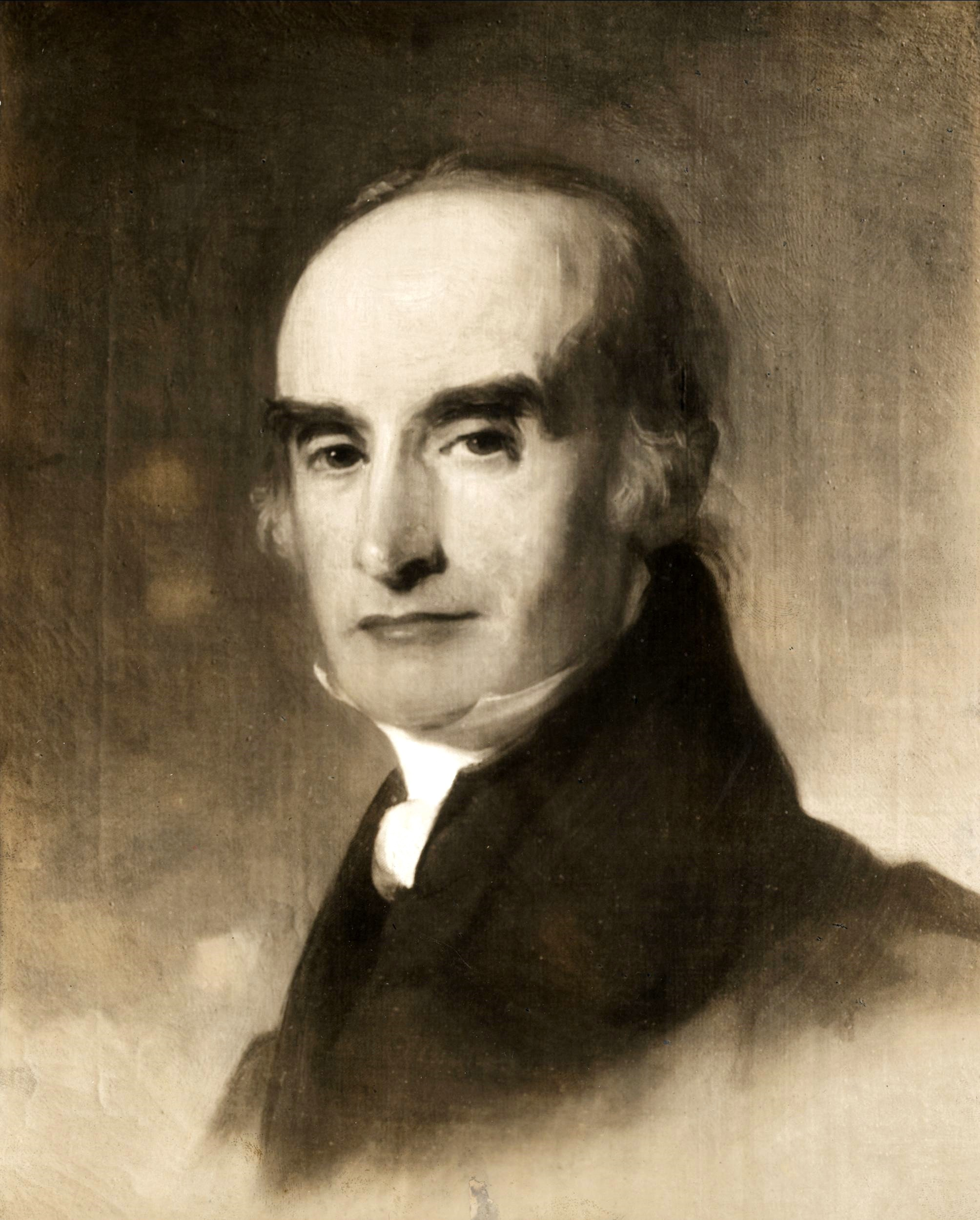 Joseph Hopkinson (1770-1842) A.B. 1786, portrait painting